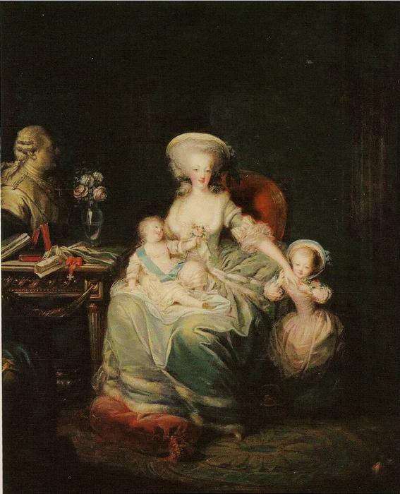 Marie Antoinette and her children, Louis Joseph, Dauphin of France and Madame Royale overlooked by a bust of Louis XVI